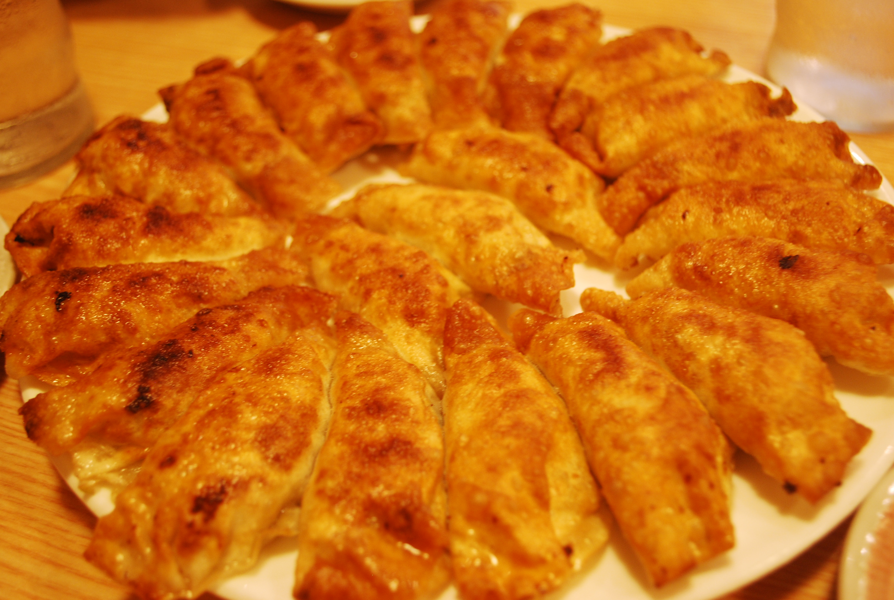 Dumplings Iizaka famous hot spring,Fukushima-city,Japan